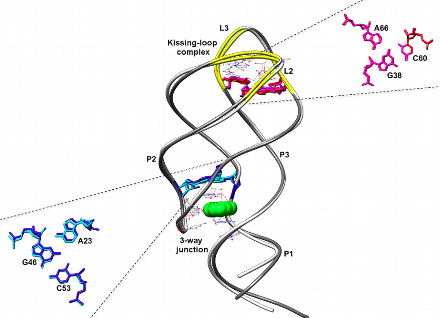 An overlay comparison of two kissing loop motifs